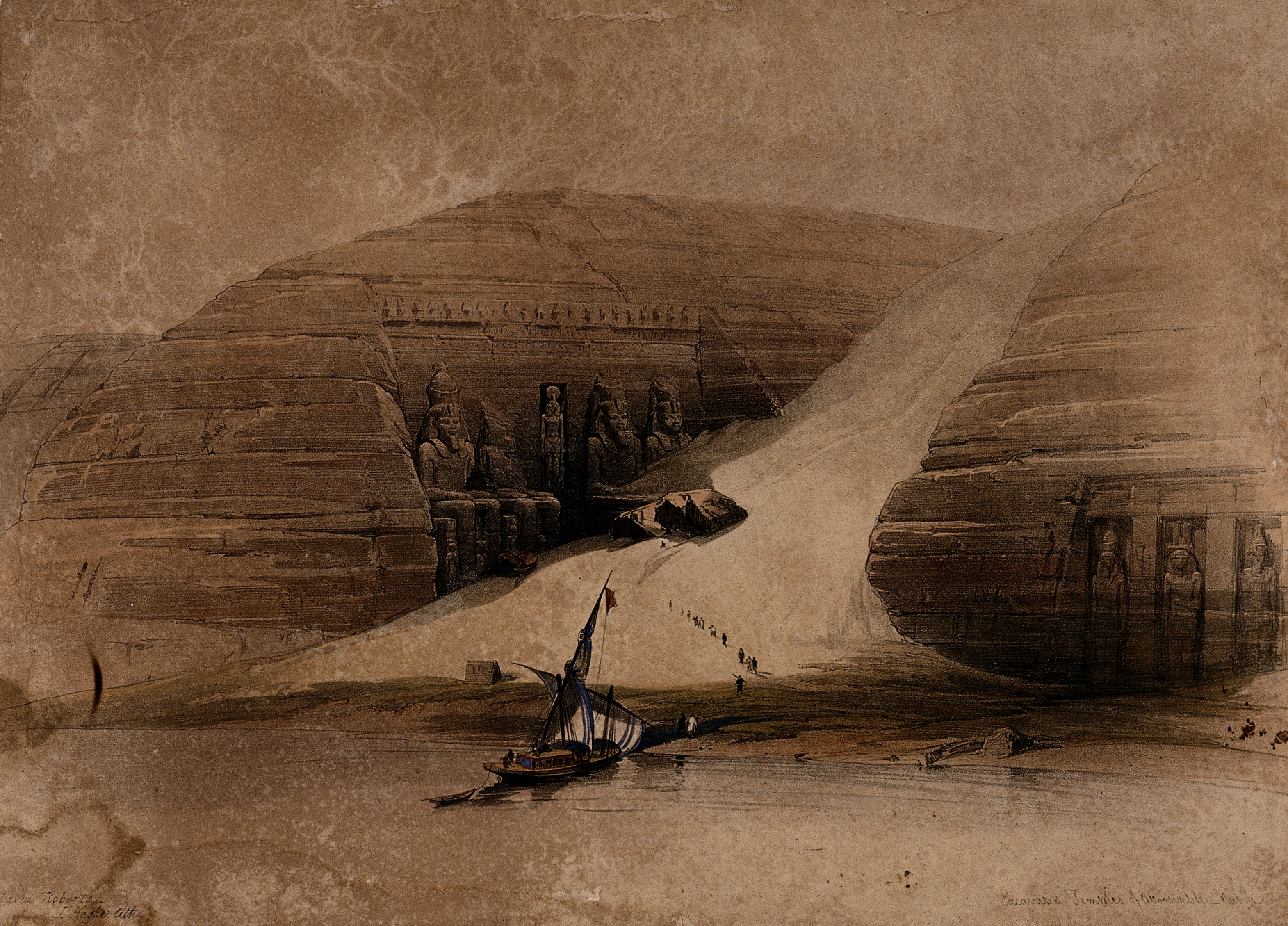 Colossal statues excavated at Abu Simbel, seen from the Nile, Egypt. Coloured lithograph by Louis Haghe after David Roberts, 1849. Iconographic Collections Keywords: David Roberts; Louis Haghe